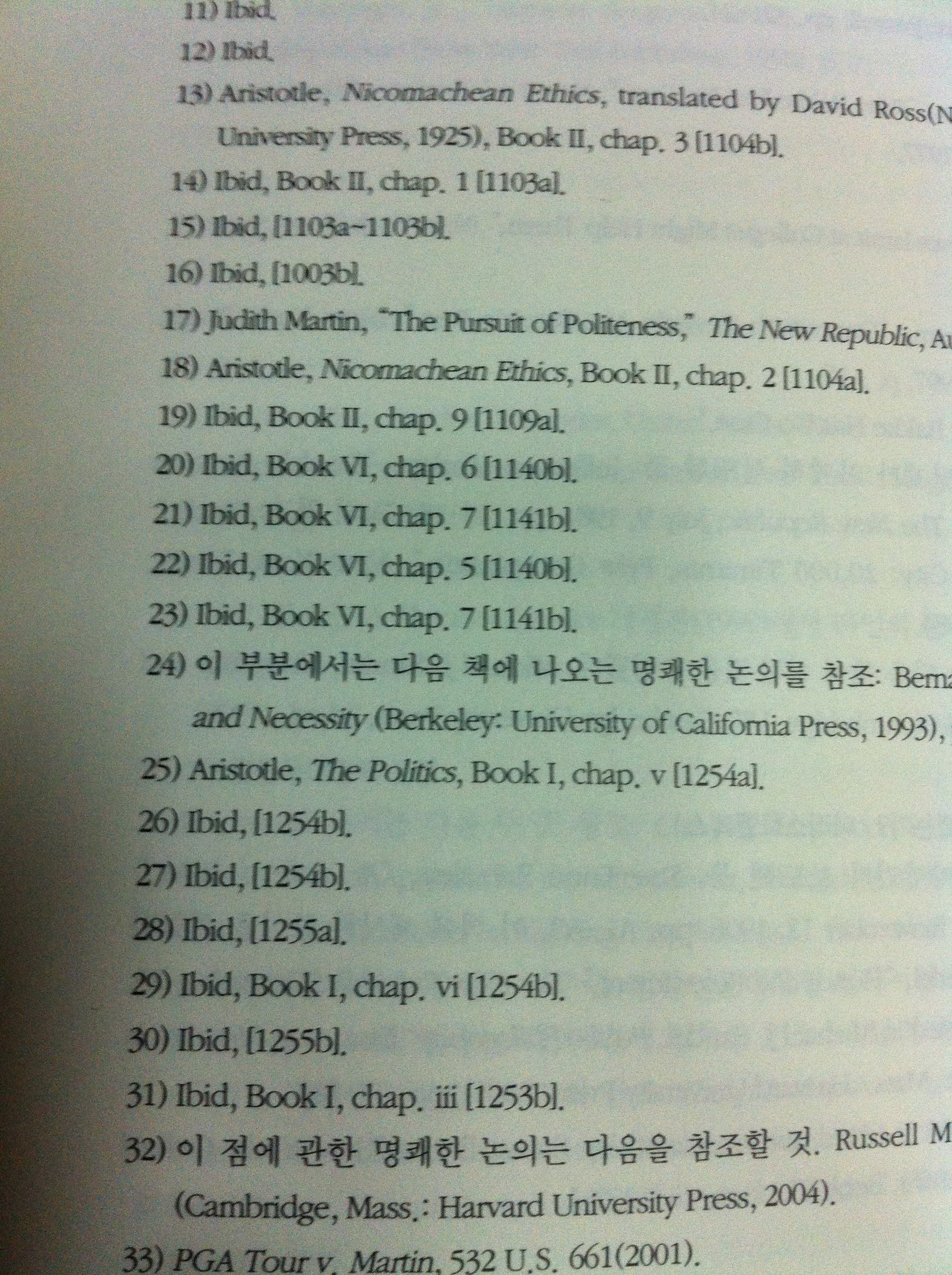 Examples of Ibid., from "Justice" by Michael J. Sandel. Here, ibid. has actually been used incorrectly - being an abbreviation, there needs to be a period at the end of it.